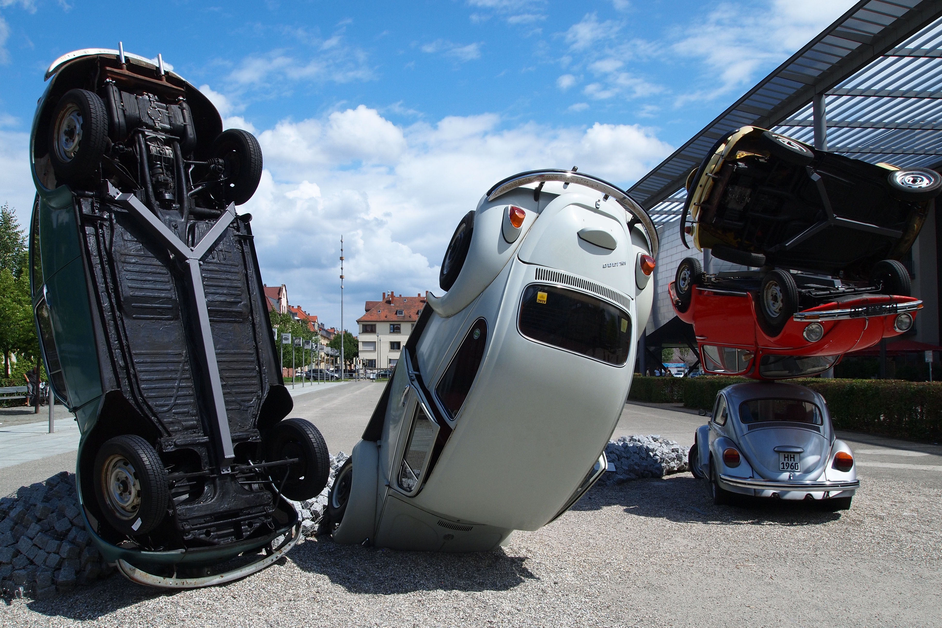 Exhibition CarCulture in Karlsruhe, public sculpture in front of ZKM museum